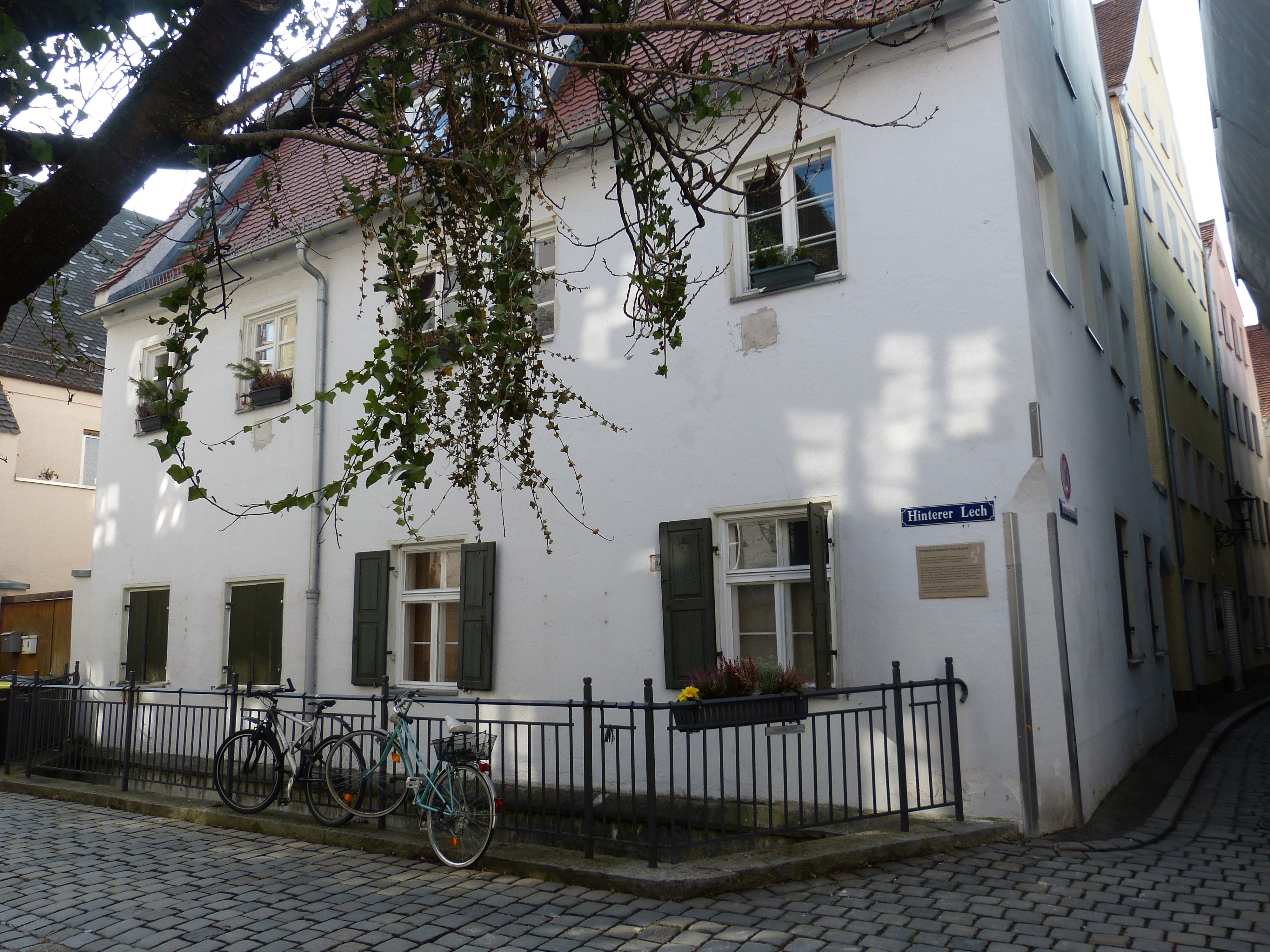 Augsburg, Hinterer Lech 2. This is a photograph of an architectural monument.